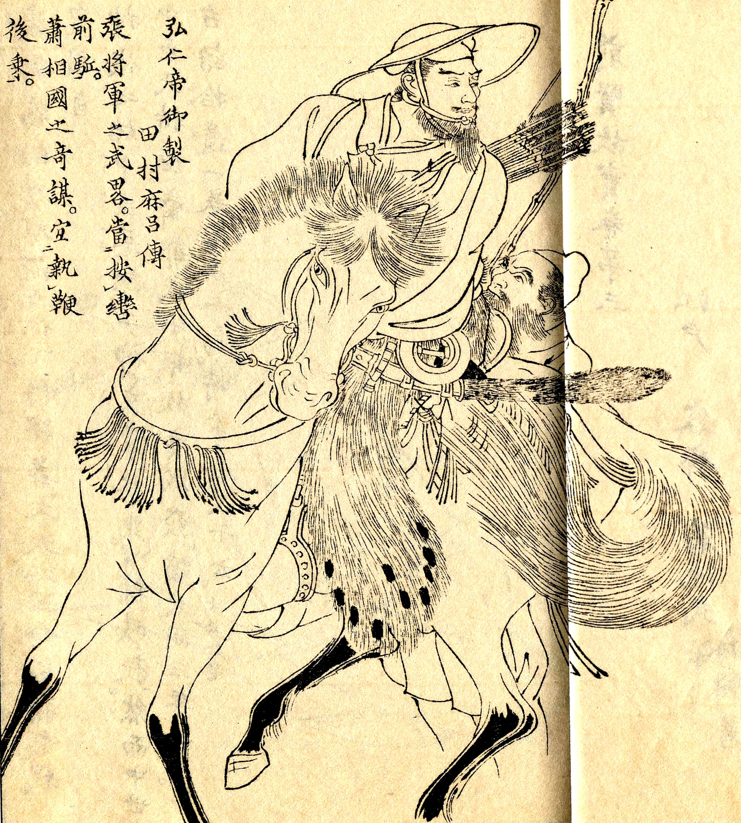 The illustration of Sakanoue no Tamuramaro from the series of the books, "Zenken Kojitsu". Sakanoue no Tamuramaro (坂上田村麻呂 758 - 811) was a general and shogun of the early Heian Period of Japan.